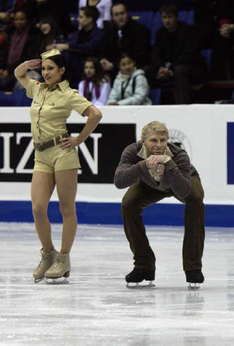 Isabelle DELOBEL and Olivier SCHOENFELDER. Grand Prix Final 2008. OD - Rhythms of the 1920s, 1930s, and 1940s